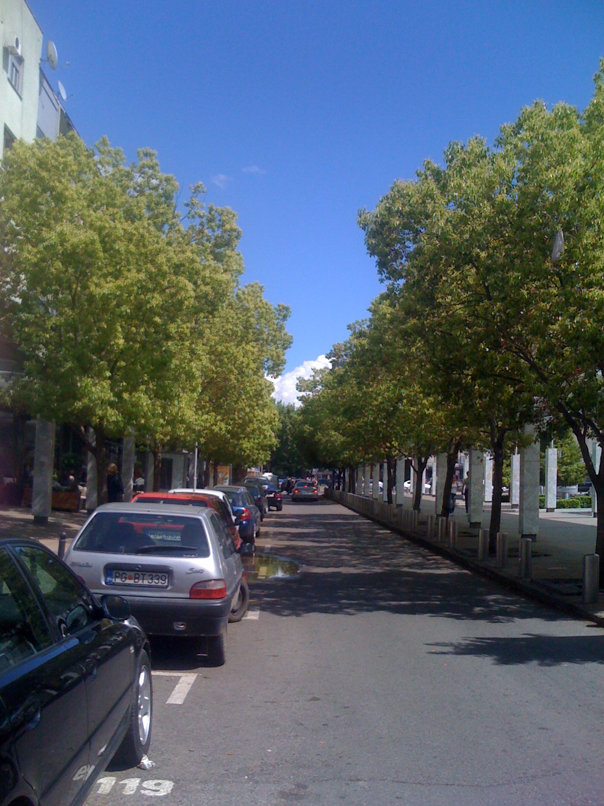 Bokeška street